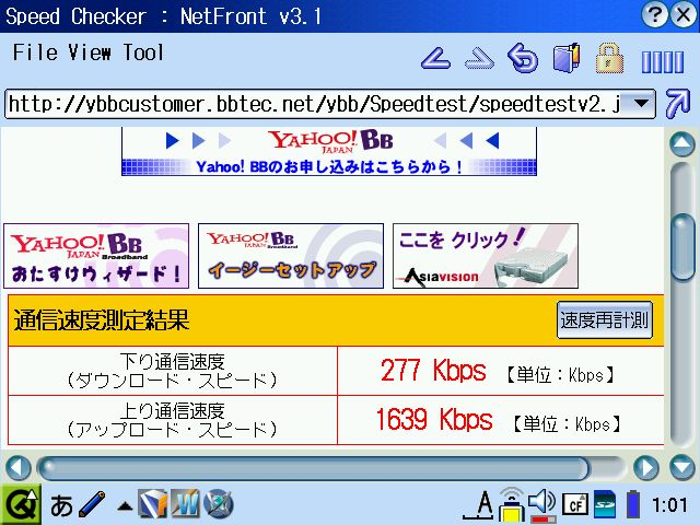 Screenshot from my new Zaurus (Linux PDA) running the English'cized Qtopia desktop and NetFront 3.1 browser over a Planex WiFi card.